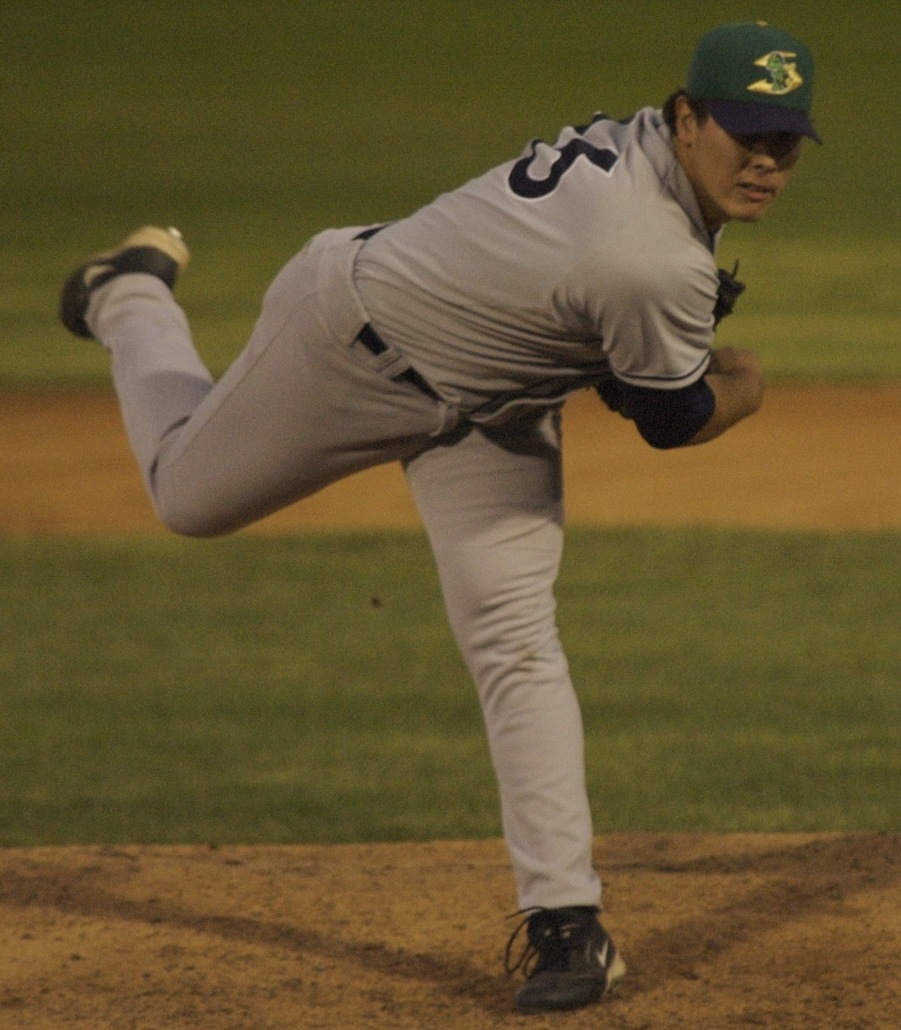 Eduardo "Eddie" Morlan pitching for the Beloit Snappers against the Southwest Michigan Devil Rays (August 31, 2006)